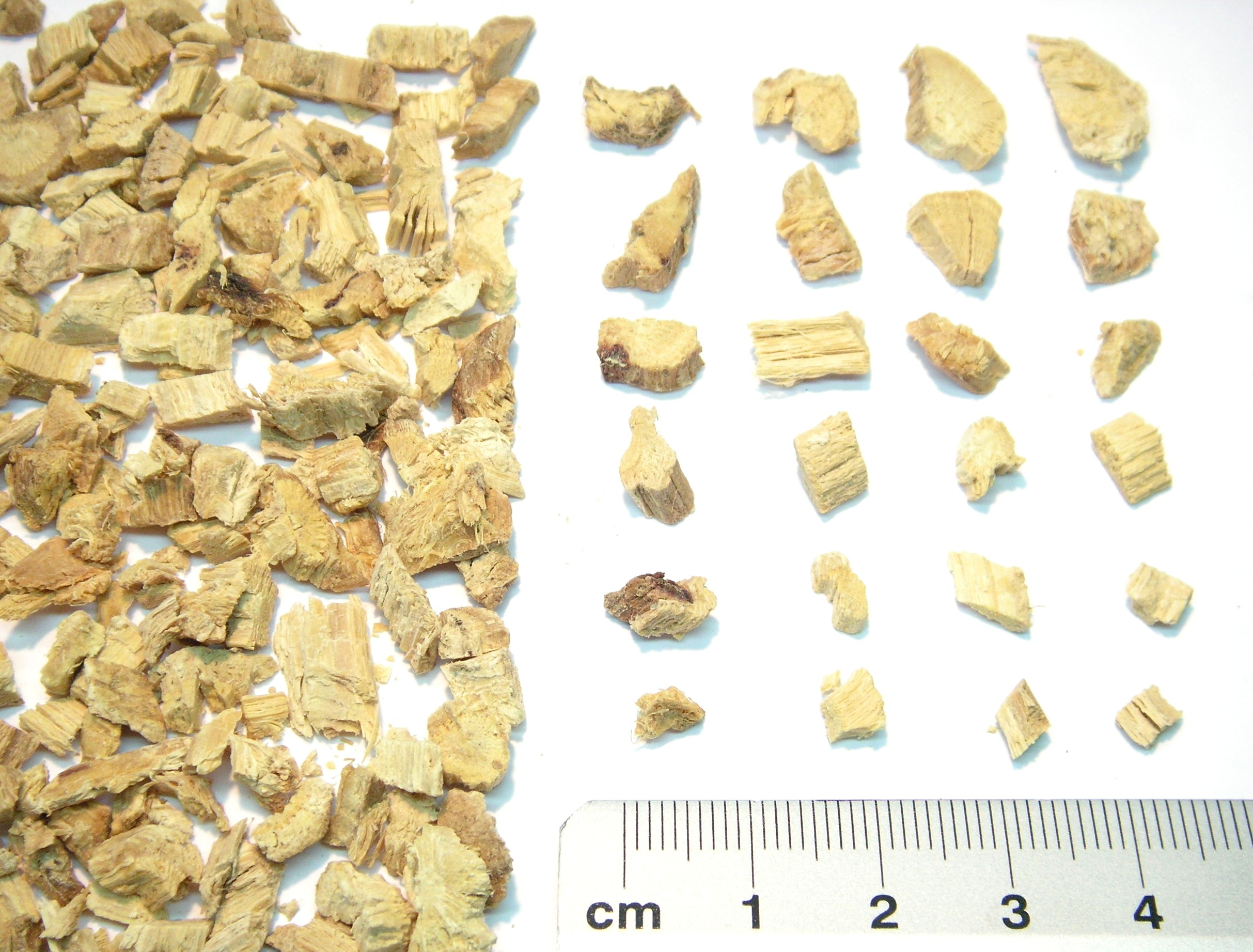 Coarsly grated radix of Glycyrrhiza glabra (Liquorice). Also called Liquiritiae radix according to the European Pharmacopoeia.